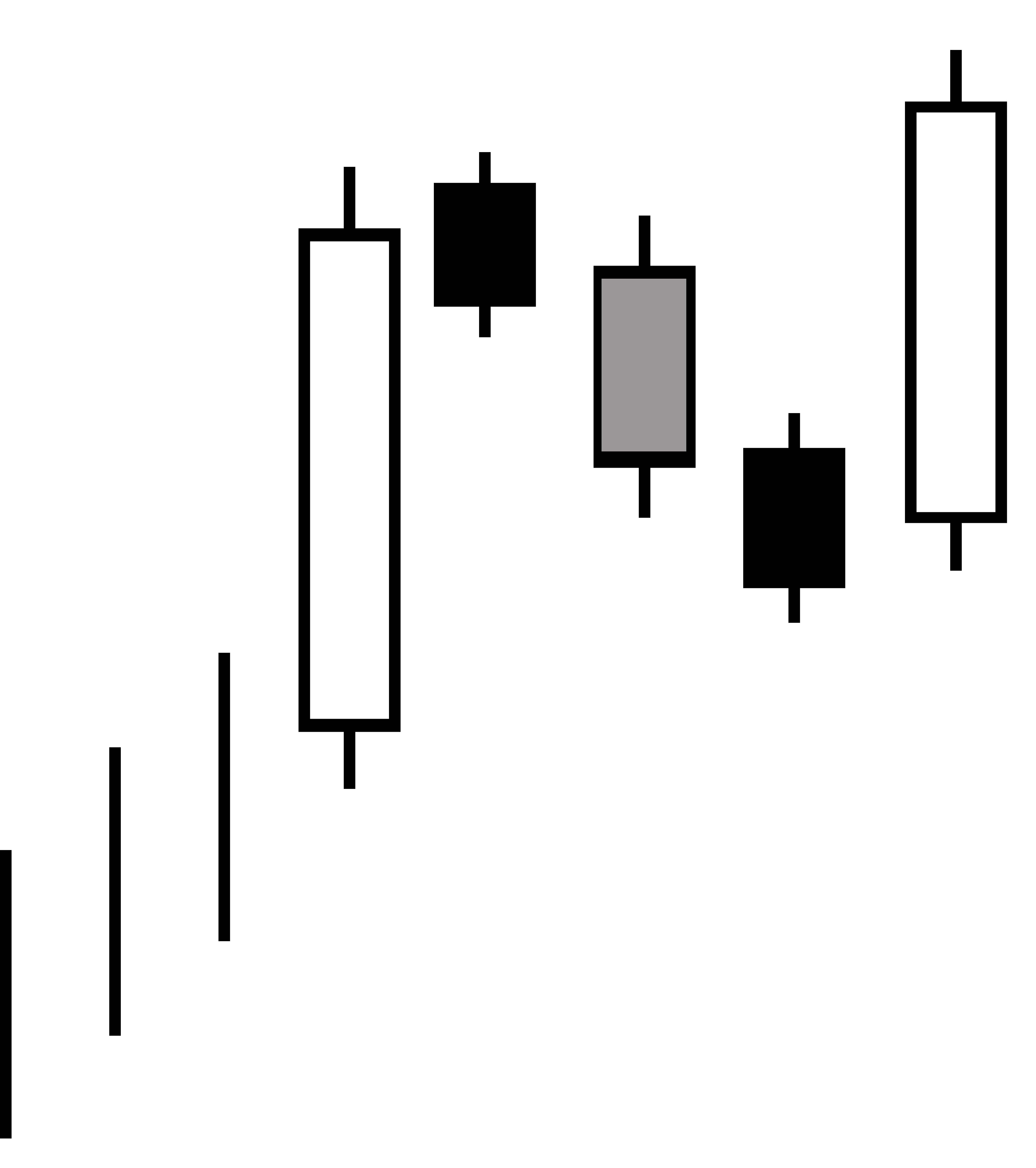 Bullish Rising Three Methods